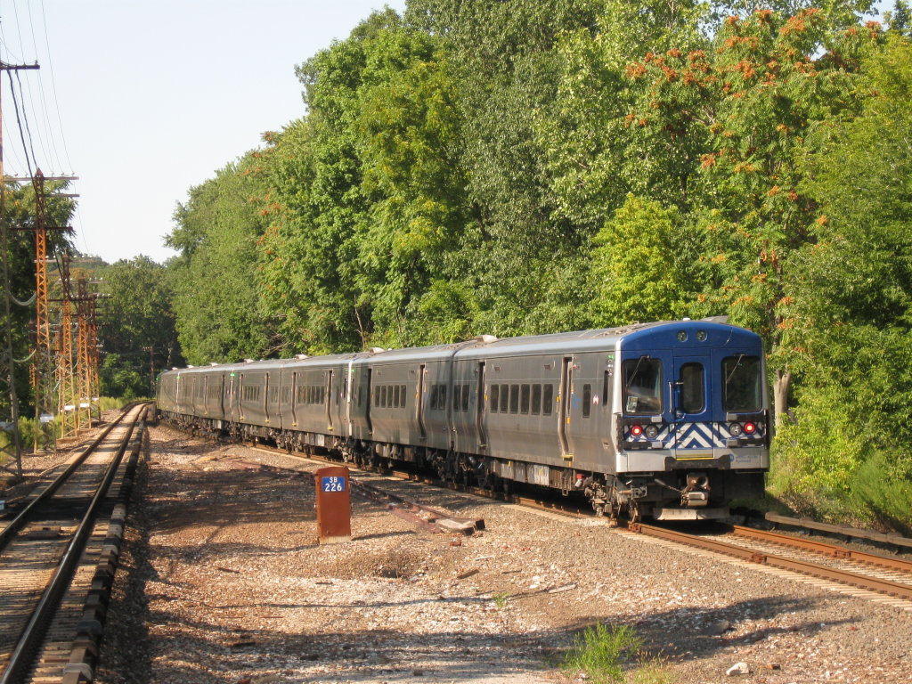 Metro-North train #645 leaves White Plains en route to Southeast.